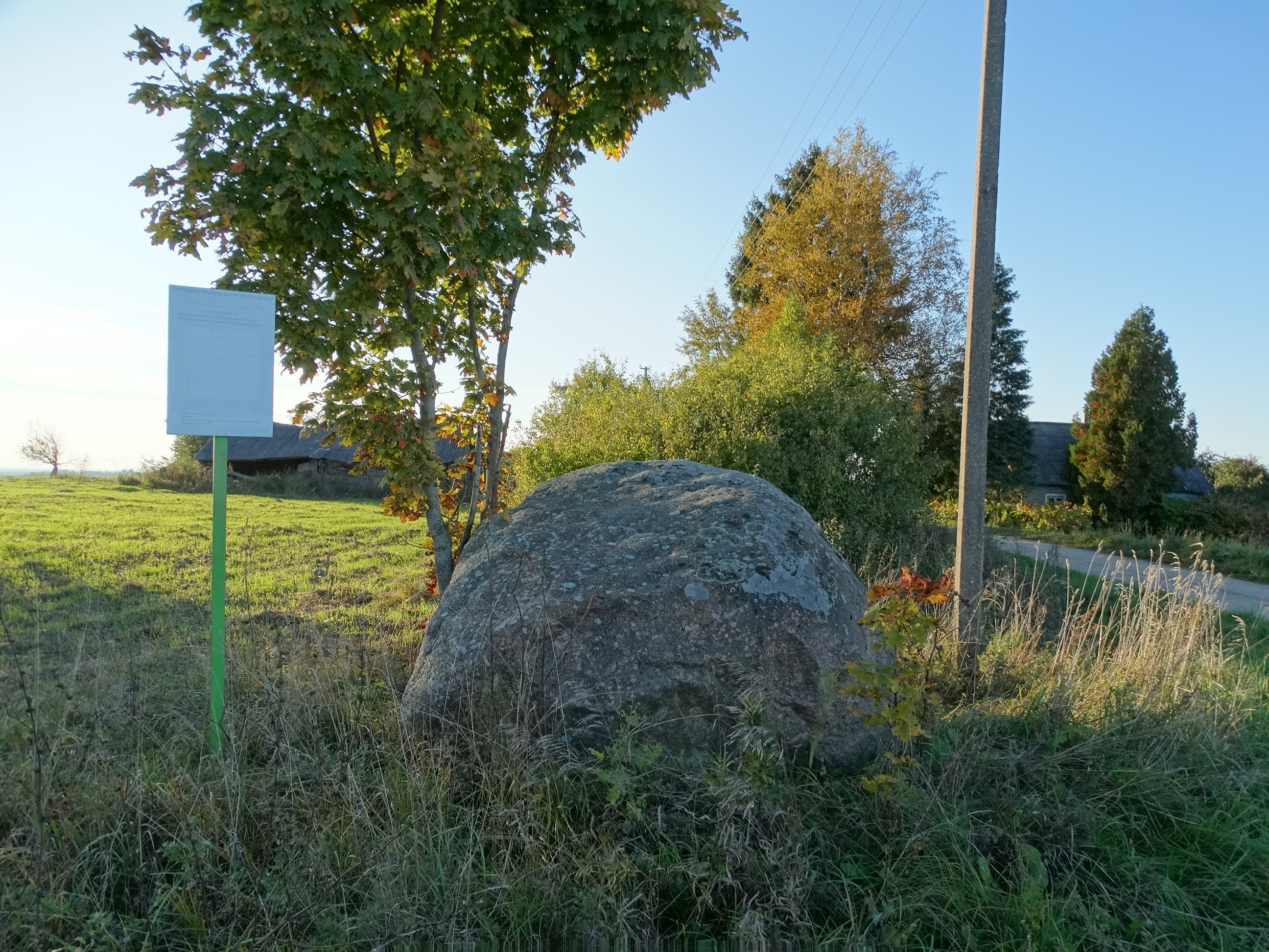 Stone, Butkiškės, Kaišiadorys district, Lithuania